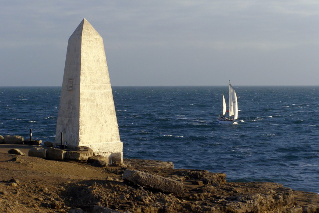 Obelisk and boat, Portland Bill On the left is a seven metre tall white stone obelisk was built in 1844 at the southern tip of Portland Bill as a warning of a low shelf of rock extending 30 metres south into the sea. The obelisk was saved from threatened demolition in 2002. Just offshore a small yacht rounds the headland.